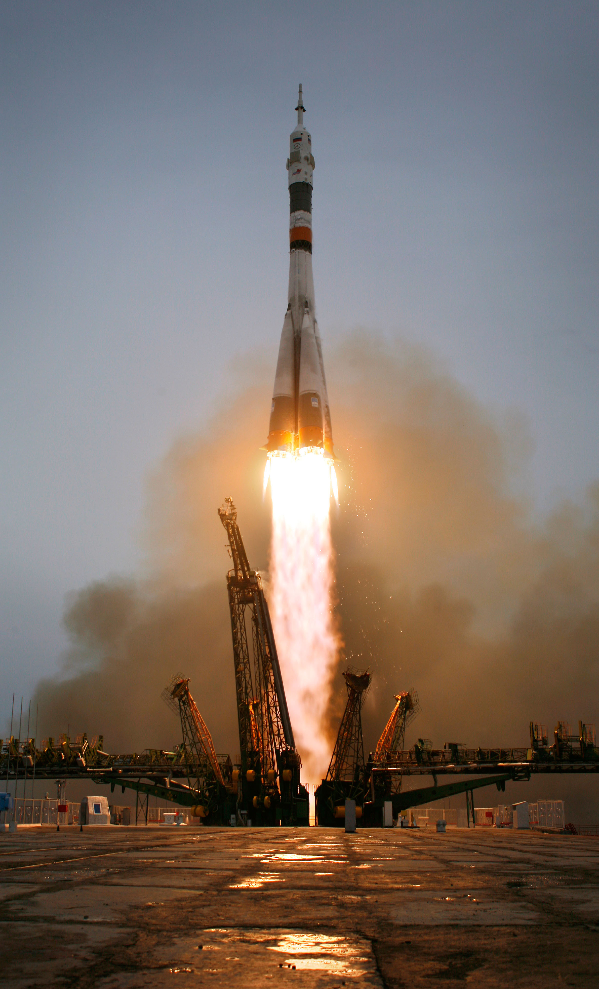 The Soyuz TMA-14 launches from the Baikonur Cosmodrome in Kazakhstan on March 26, 2009 carrying the crew of Gennady I. Padalka, Expedition 19 commander; and Michael R. Barratt, flight engineer, along with spaceflight participant Charles Simonyi to the International Space Station.